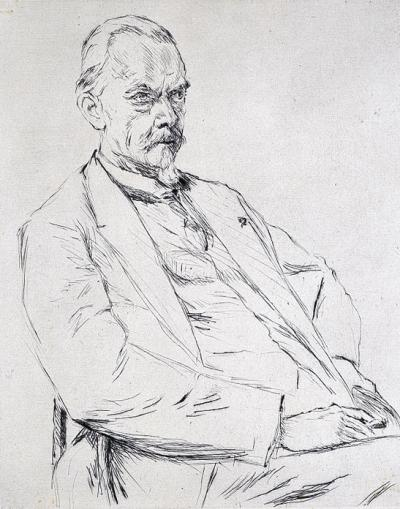 Max Liebermann - Portrait of Cornelis Hofstede de Groot at the Age of 65 - 1928 - etching - Groninger Museum, Groningen